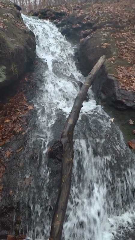 Dulaney Valley Falls is a 17 foot cascading waterfall in Baldwin MD.